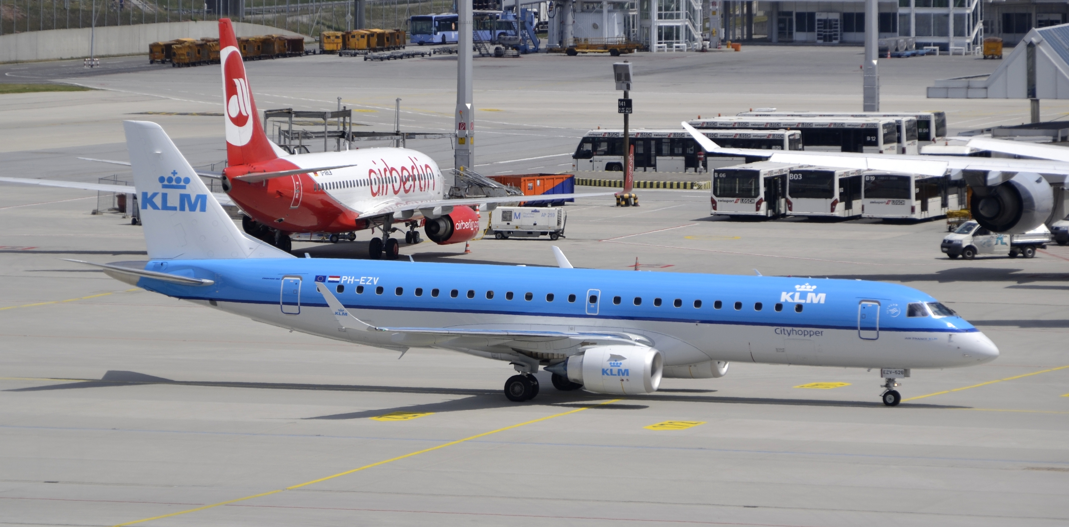 KLM cityhopper aircraft at the Munich Airport.